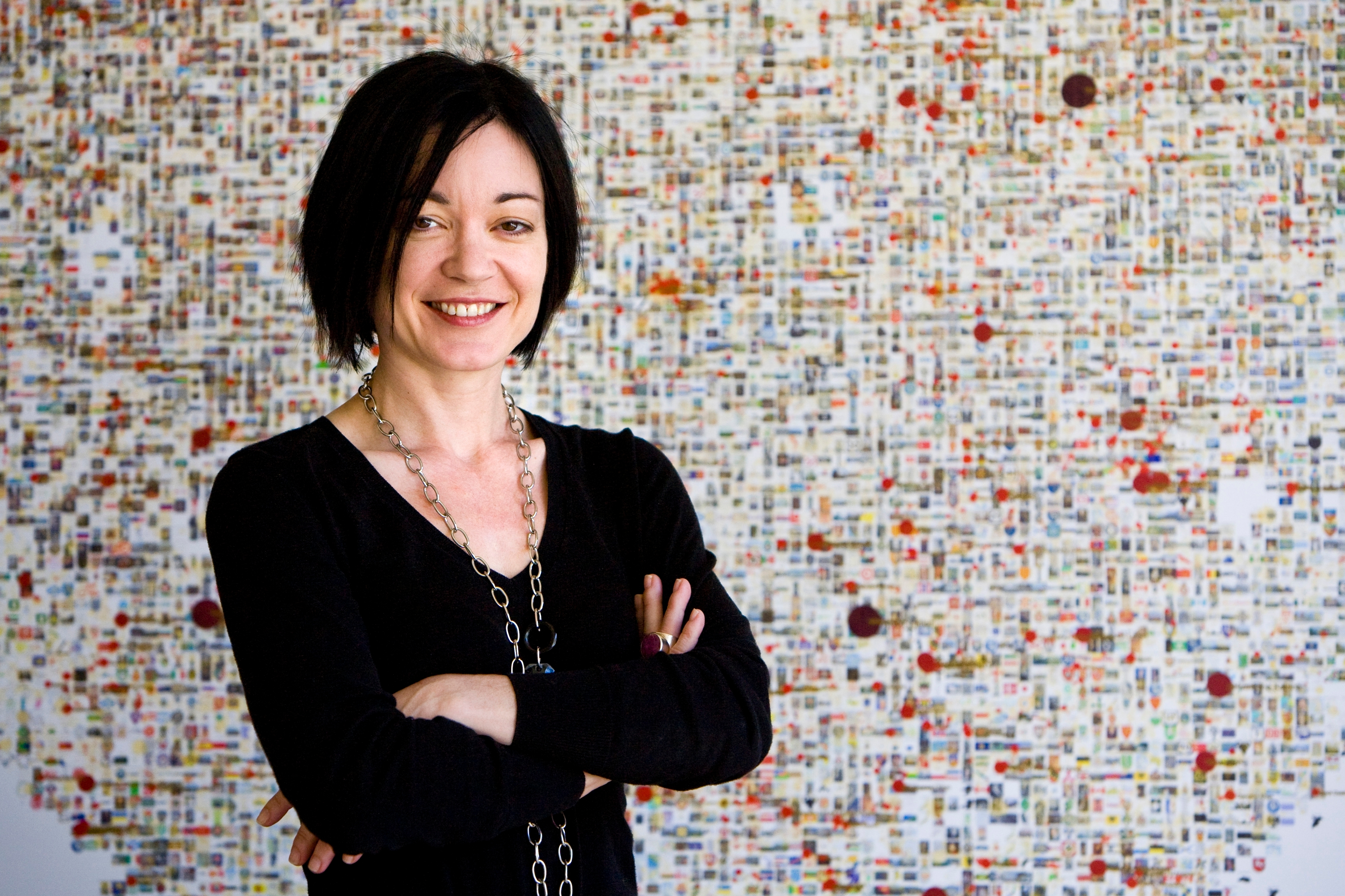 staff portrait of Sue Gardner